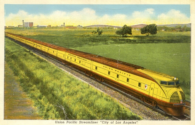 Colored Postcard 1936 for new Union Pacific M-10002 Streamliner "City of Los Angeles"